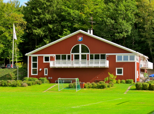 Öisgården, the club house of Örgryte IS, Kallebäck, Göteborg